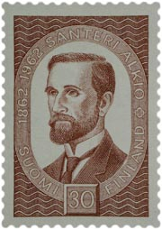 Stamp of Santeri Alkio